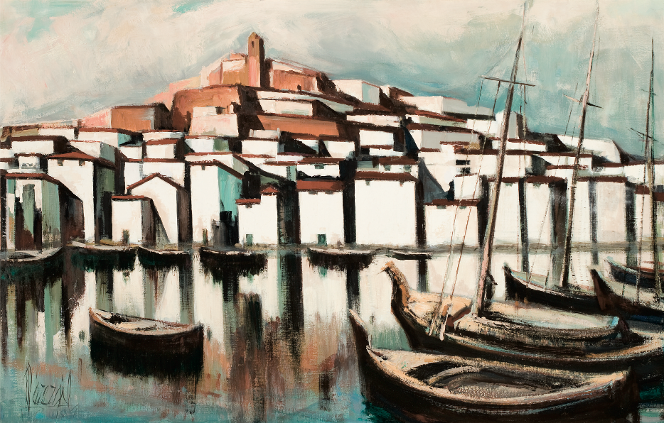 Oil on canvas painting by José Pérez Gil: 'Pueblo marinero', 90x150cm, (1986) .